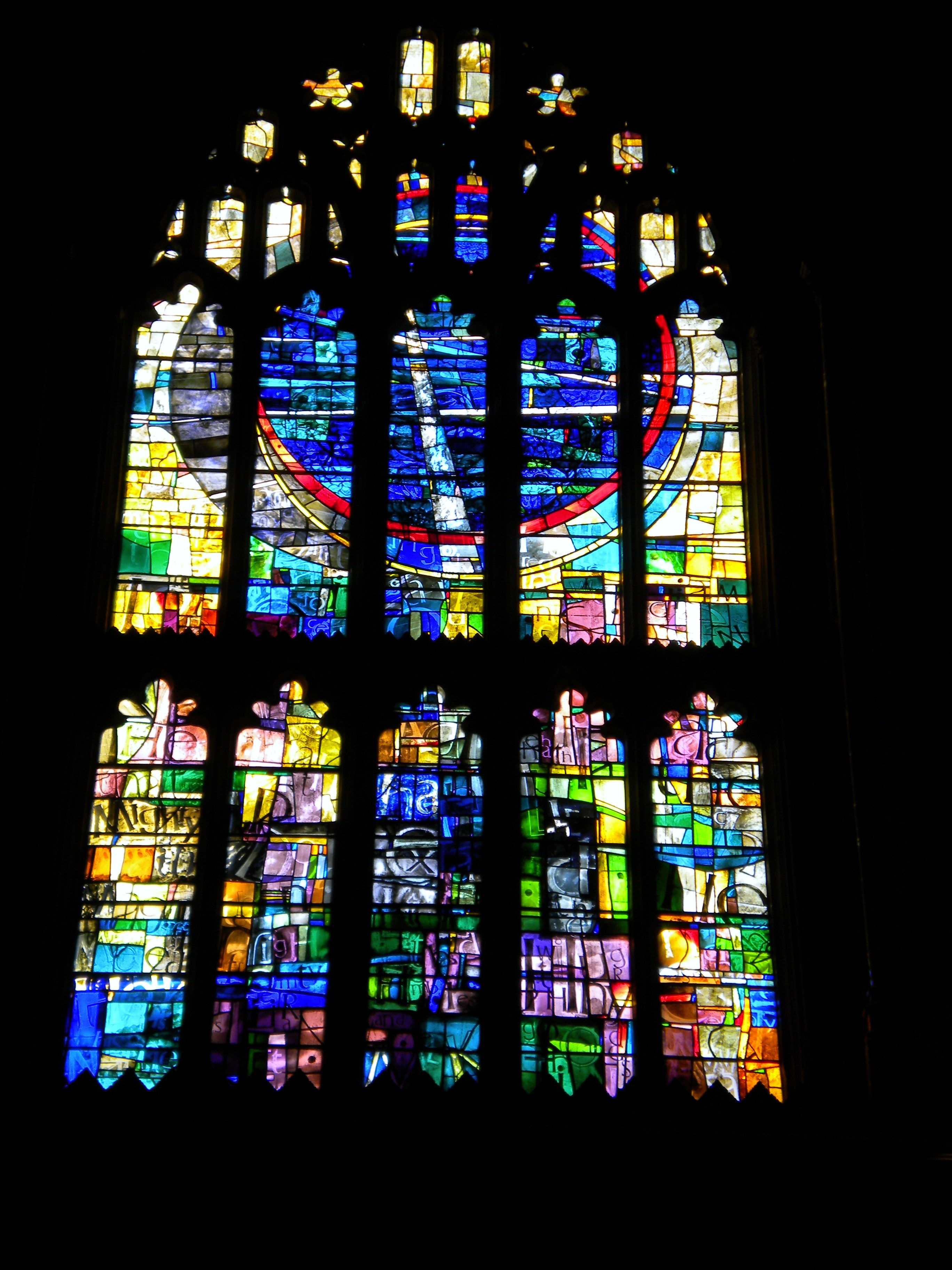 A west window at Manchester Cathedral, Manchester, England.